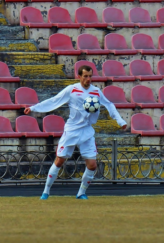 Vitaliy Romanyuk, defender of FC Stal Alchevsk